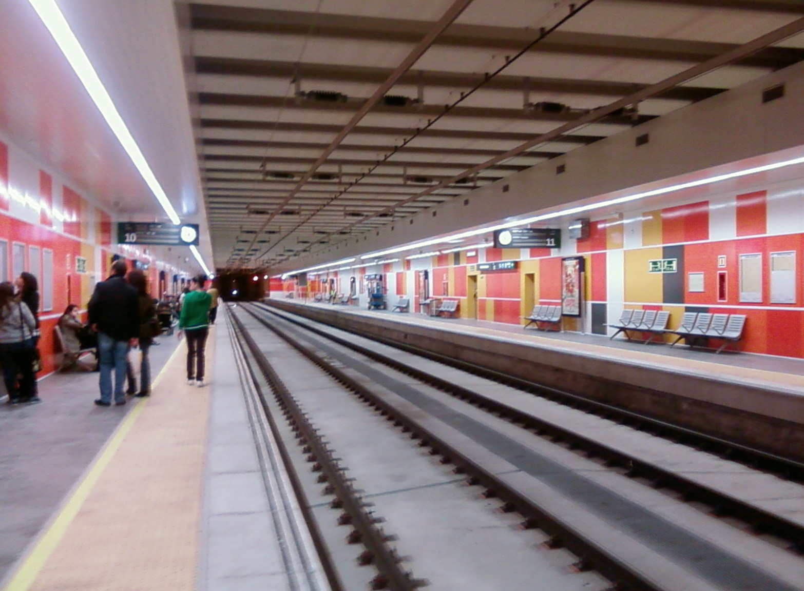 Suburban commuter railroad in María Zambrano station, Málaga, Spain